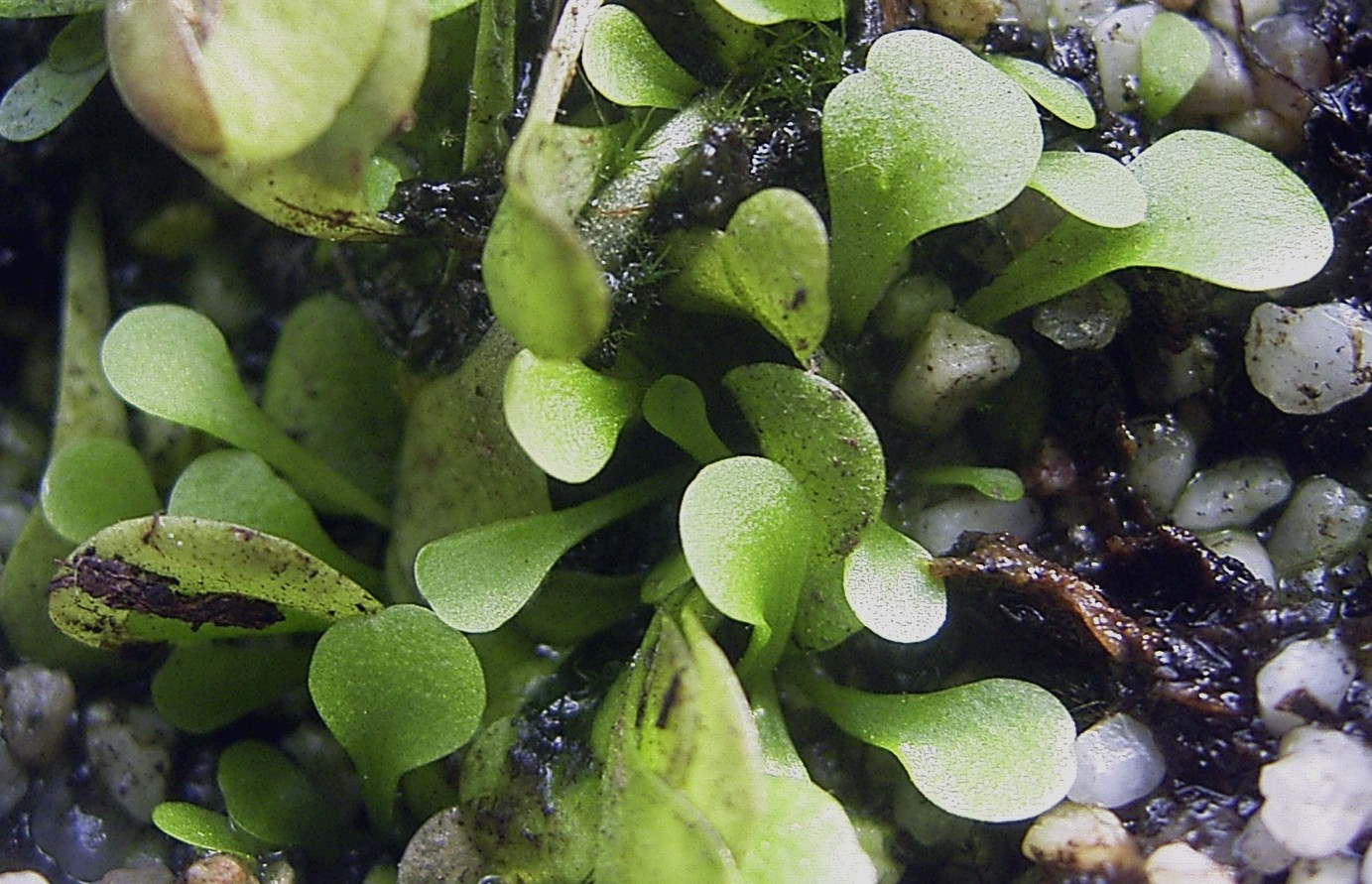 Original Reworked version of Image:Genlisea_violacea.JPG by Denis Barthel Original-Description: (Uploaded by User:Denis Barthel) Genlisea violacea Author: Denis Barthel